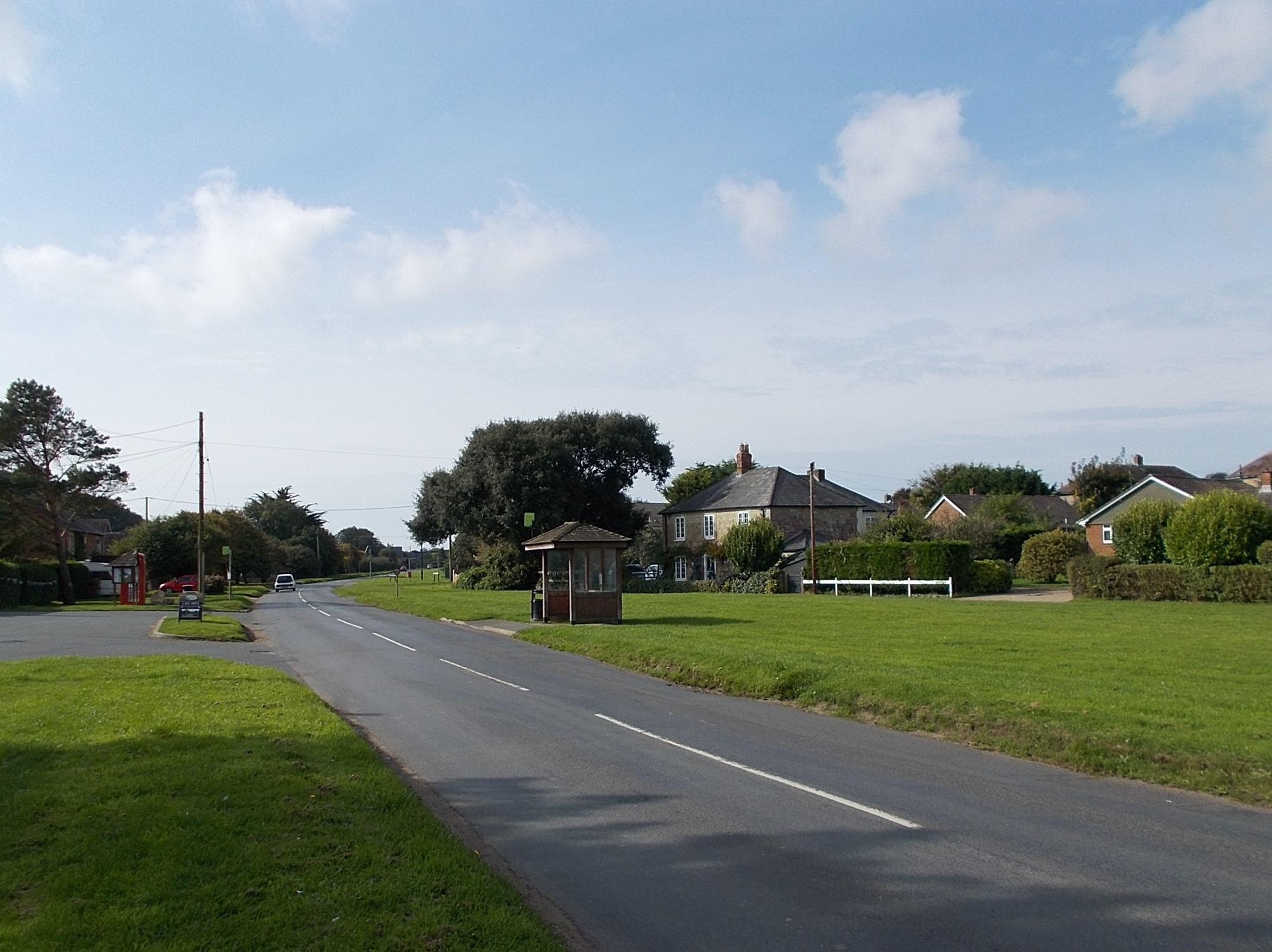 Chale Green, Isle of Wight, UK